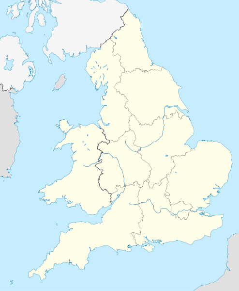 Map of Wales and the Regions of England